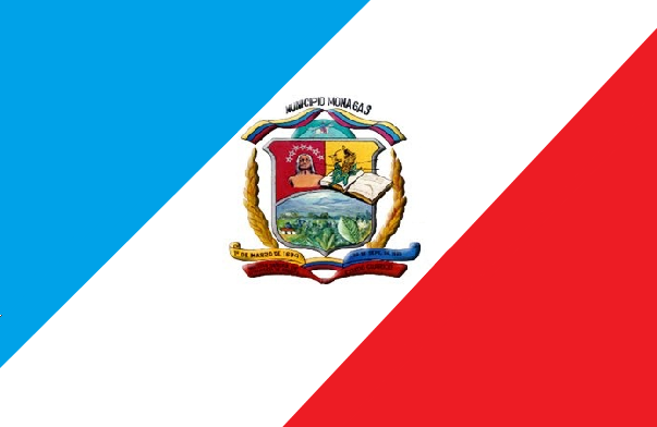 bandera del municipio jose tadeo monagas del estado guarico